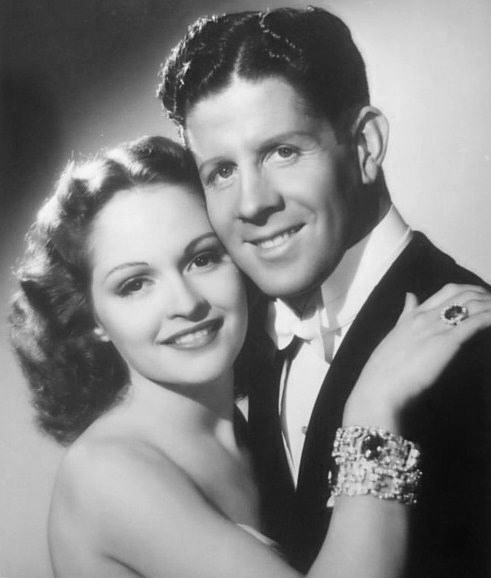 Mary Healy and Rudy Vallee in Second Fiddle (1939) - publicity still (cropped)